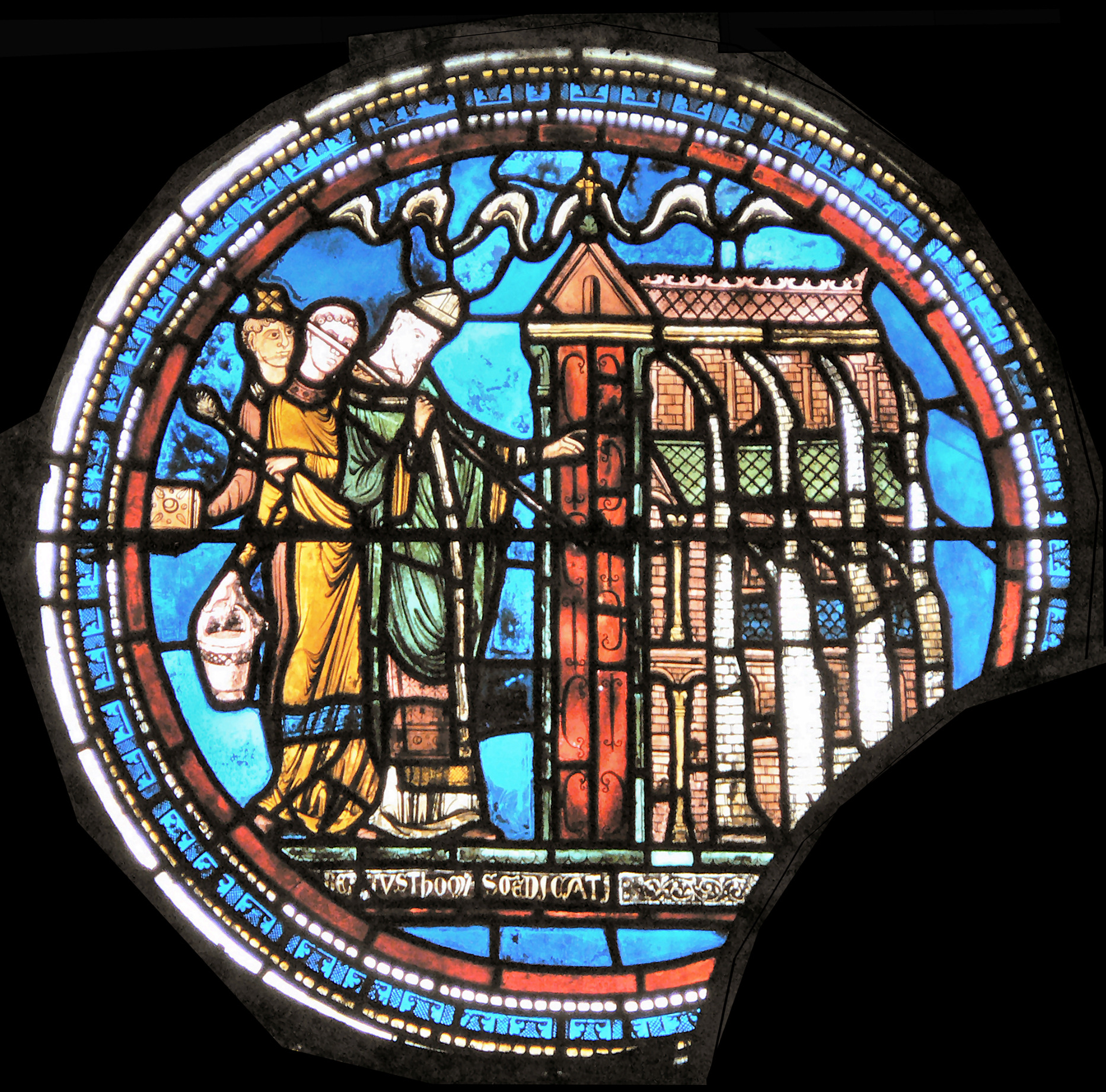 Saint Thomas Becket dedicates a church, scene from the Life of Saint Thomas Becket window, circa 1200-1220, Sens Cathedral